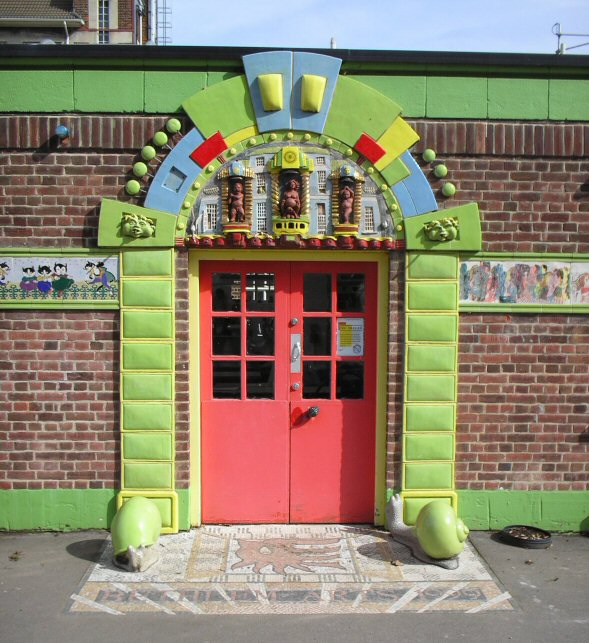 Picture of entrance to the Occupational Therapy Department at the Bethlem Royal Hospital.